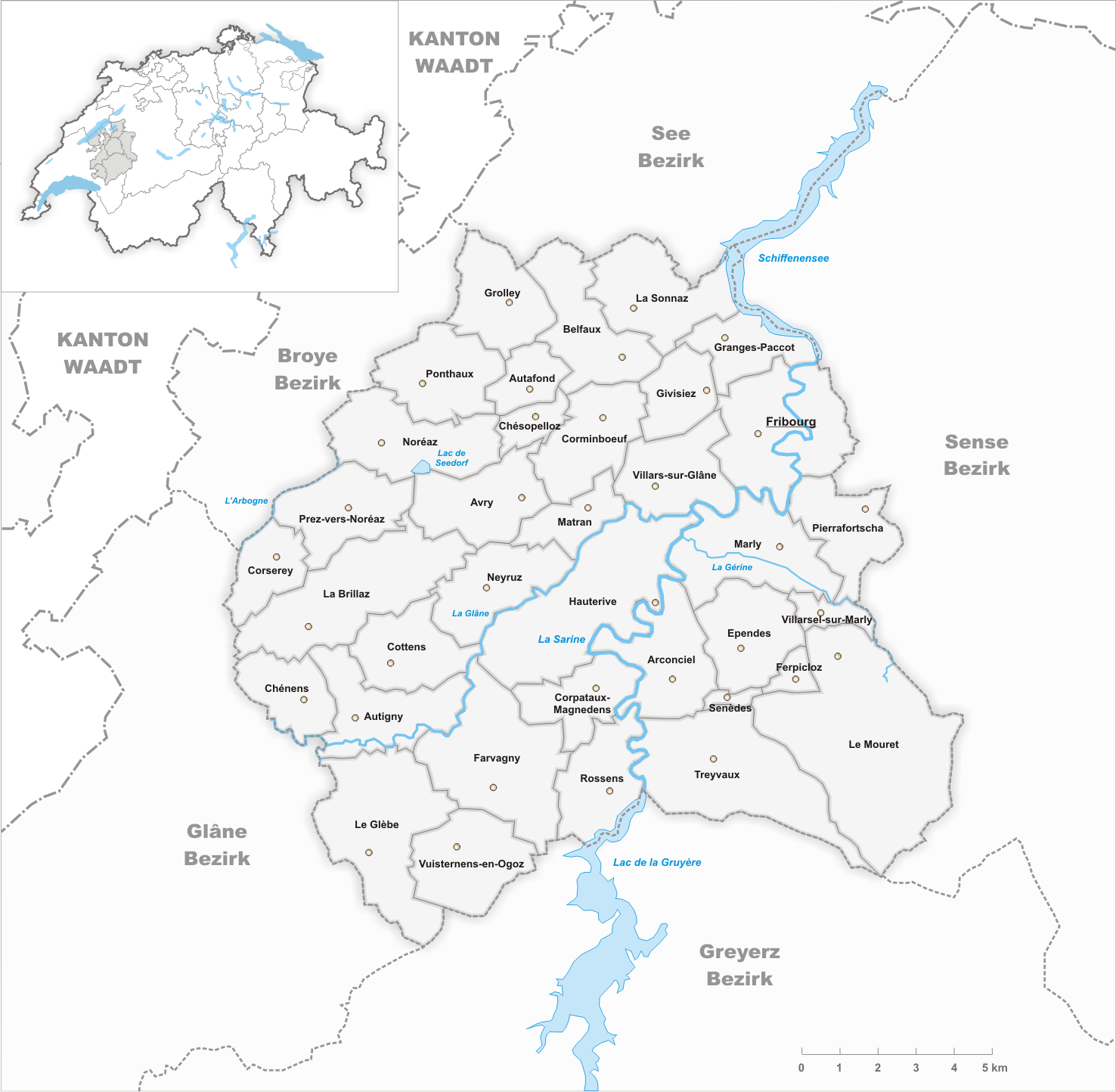 Municipality in the District of Saane Artist: Tschubby